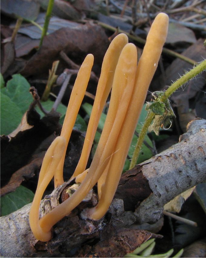 Macrotyphula fistulosa Location: Hörnefors, Västerbotten, Sweden Observation Notes: Growing on hardwood debris For more information about this, see the observation page at Mushroom Observer.